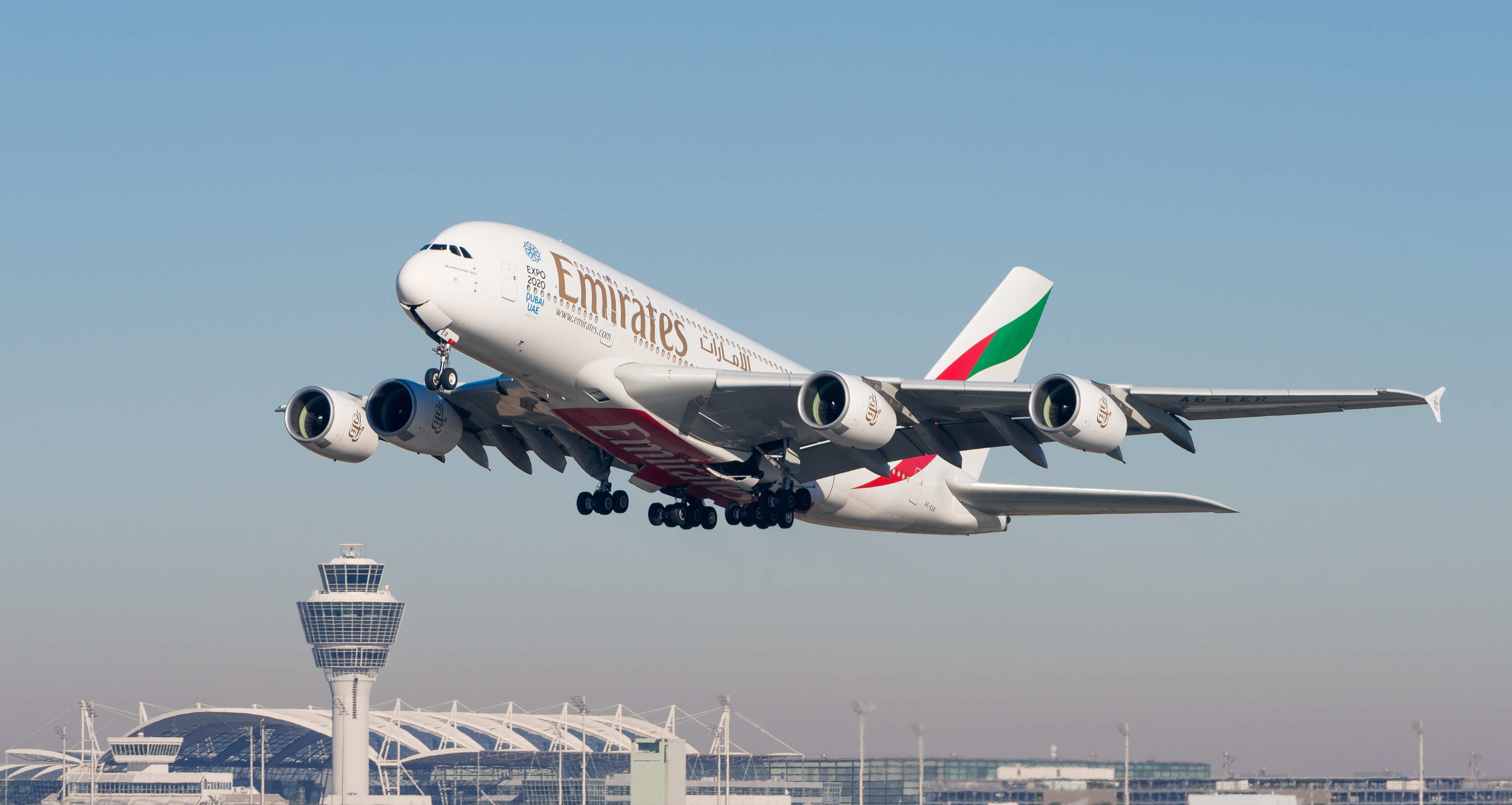 Emirates Airbus A380-861 (reg. A6-EER, msn 139) at Munich Airport (IATA: MUC; ICAO: EDDM) departing 26L. See also : File:Emirates Airbus A380-861 A6-EER MUC 2015 02.jpg File:Emirates Airbus A380-861 A6-EER MUC 2015 03.jpg File:Emirates Airbus A380-861 A6-EER MUC 2015 04.jpg File:Emirates Airbus A380-861 A6-EER MUC 2015 05.jpg